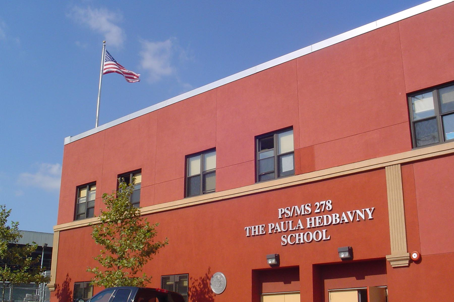 Image of outside of PSMS 278